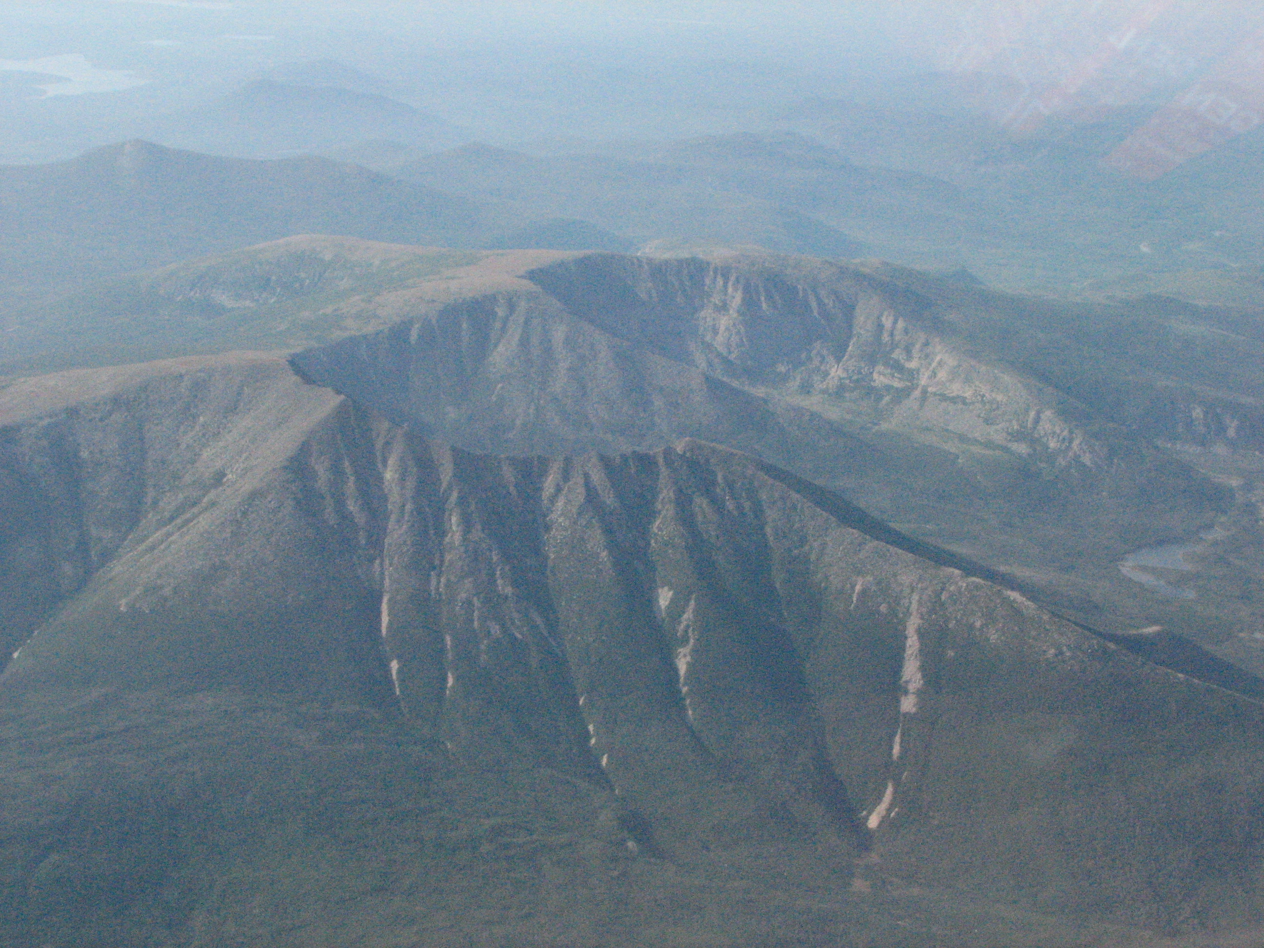 Mount Katahdin is the peak having the greatest spire measure in Eastern United States.